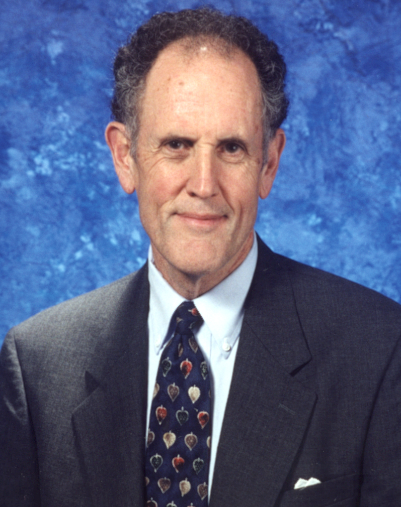 Edward "Ted" Kaufman, member of the United States Senate from Delaware since 2009 and former member of U.S. Broadcasting Board of Governors.